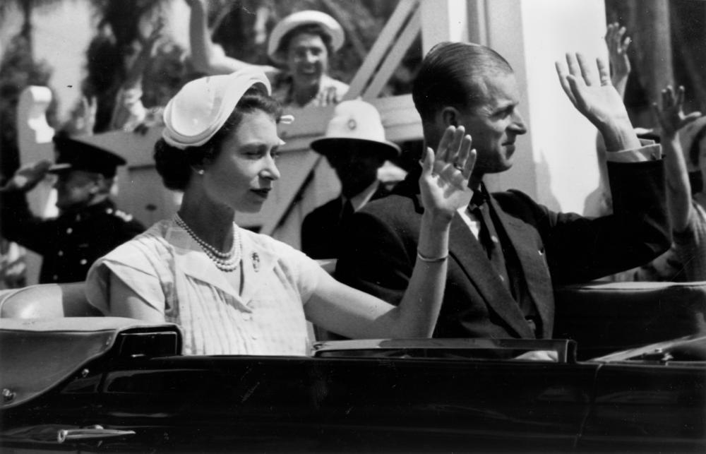 Queen Elizabeth II and Prince Philip en route to Eagle Farm Airport, Brisbane, Queensland, 1954 The Queen and Prince Philip waved to Brisbane crowds on the way to Eagle Farm Airport where they were due to leave for Townsville on Friday 12 March 1954. (Description supplied with photograph).